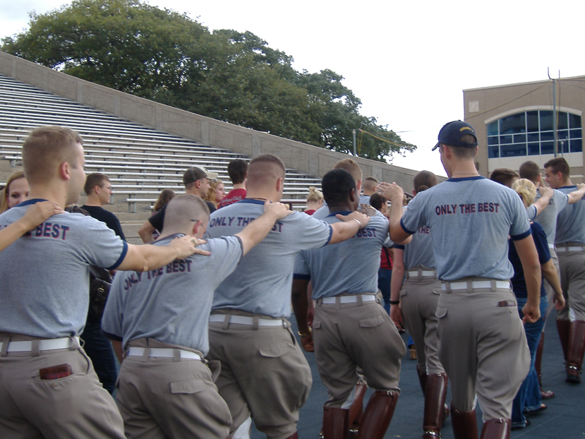 Corps seniors participate in Elephant Walk.